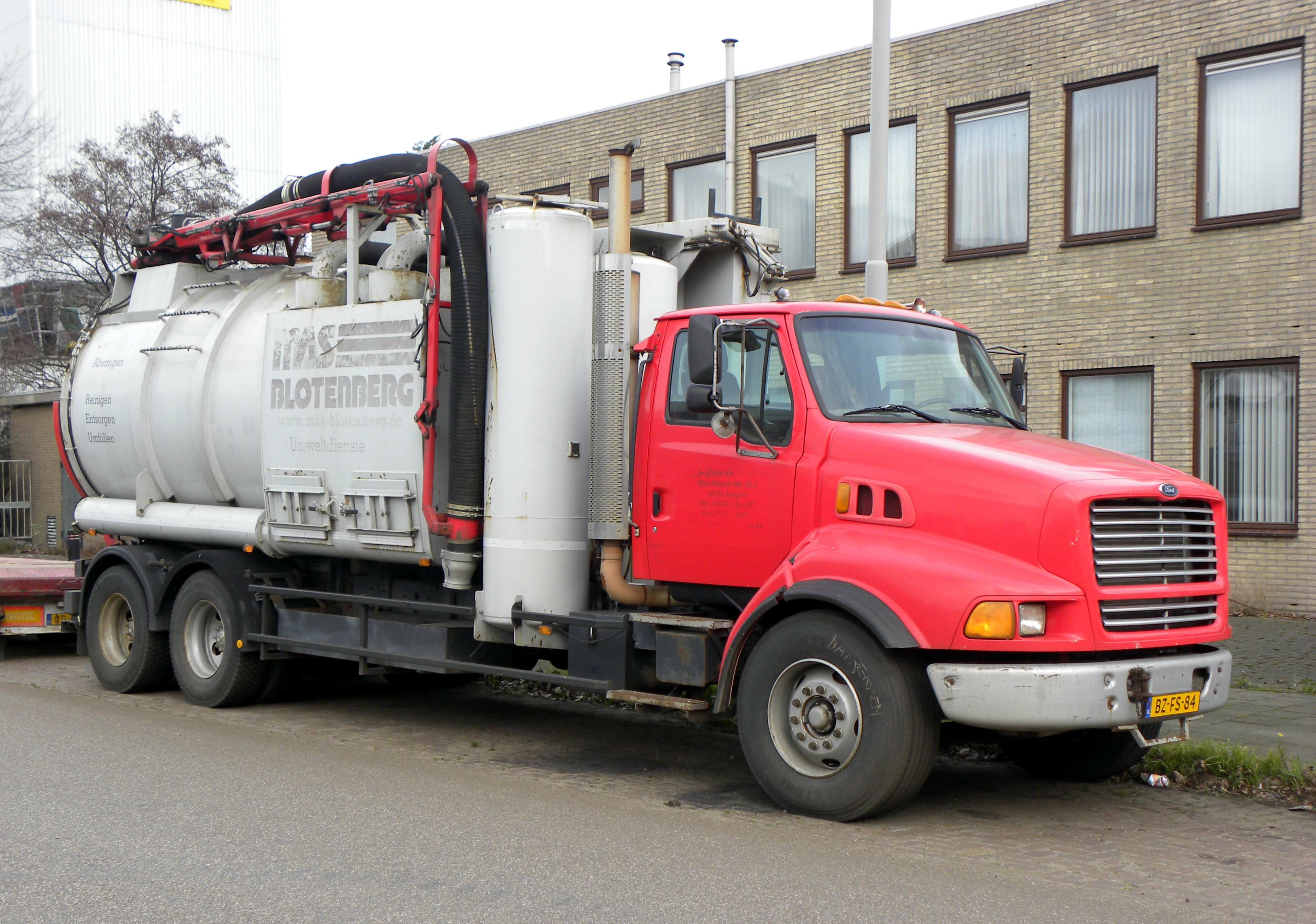 Ford LT 9513 Truck